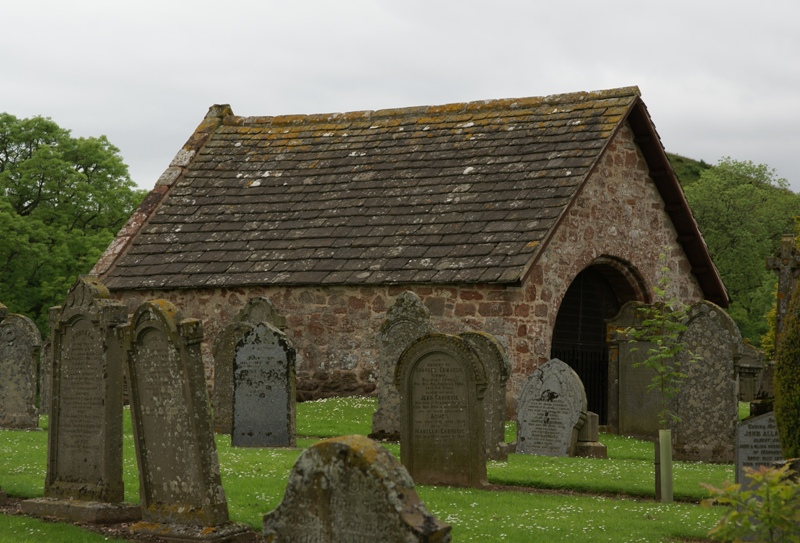 Lindsay Burial Aisle (Edzell Old Church), Edzell, Angus, Scotland.